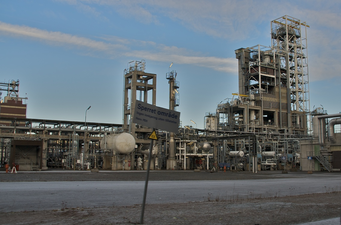 A petrochemical (polyethylene) plant in Norway.